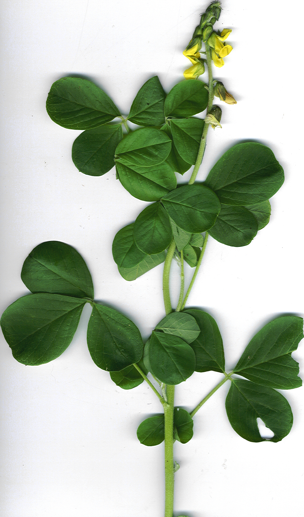 Crotalaria incana (plant). Location: Maui, Pulehu Rd